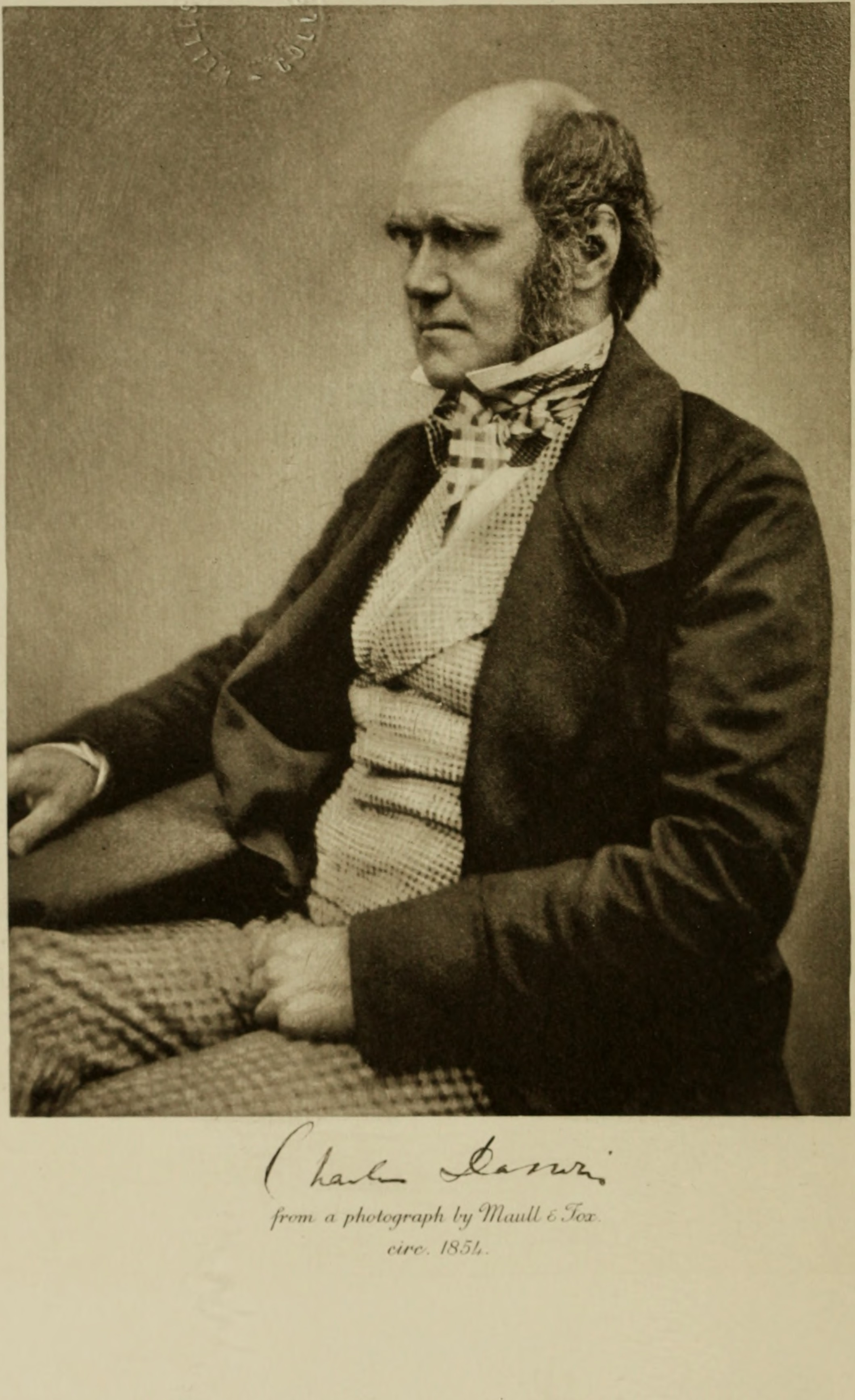 Title: Darwin and modern science; essays in commemoration of the centenary of the birth of Charles Darwin and of the fiftieth anniversary of the publication of the Origin of species Year: 1909 (1900s) Authors: Seward, A. C. (Albert Charles), 1863-1941; Cambridge Philosophical Society; Cambridge University Press Subjects: Darwin, Charles, 1809-1882; Science; Evolution Publisher: Cambridge, University press Text Appearing Before Image: ' Text Appearing After Image: '